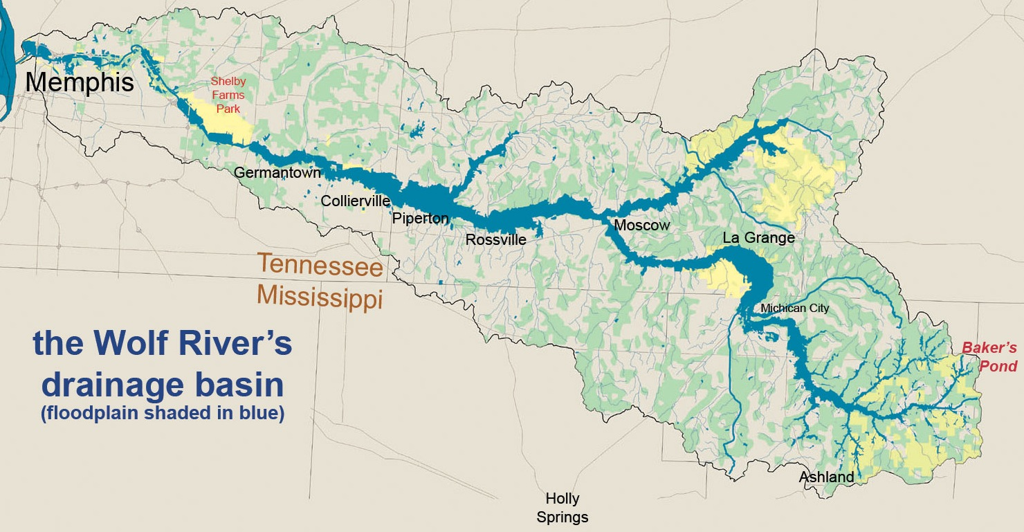 Map of the Wolf River (Tennessee) drainage basin or watershed. The blue region indicates the river's floodplain, not its normal channel width.